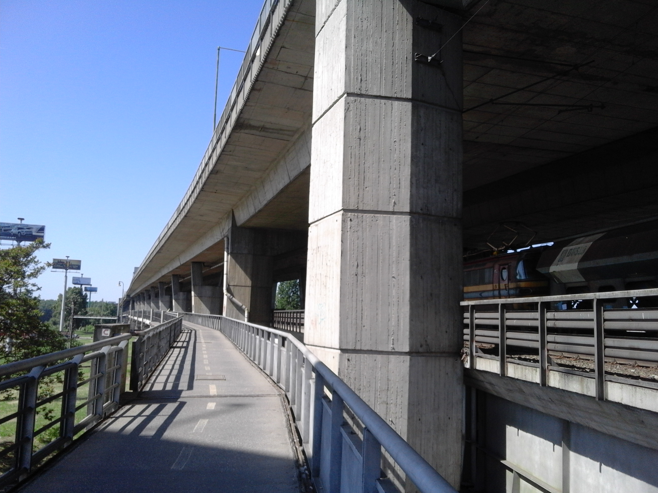 Prístavný most (Harbour Bridge), Bratislava, Slovakia Cycling path